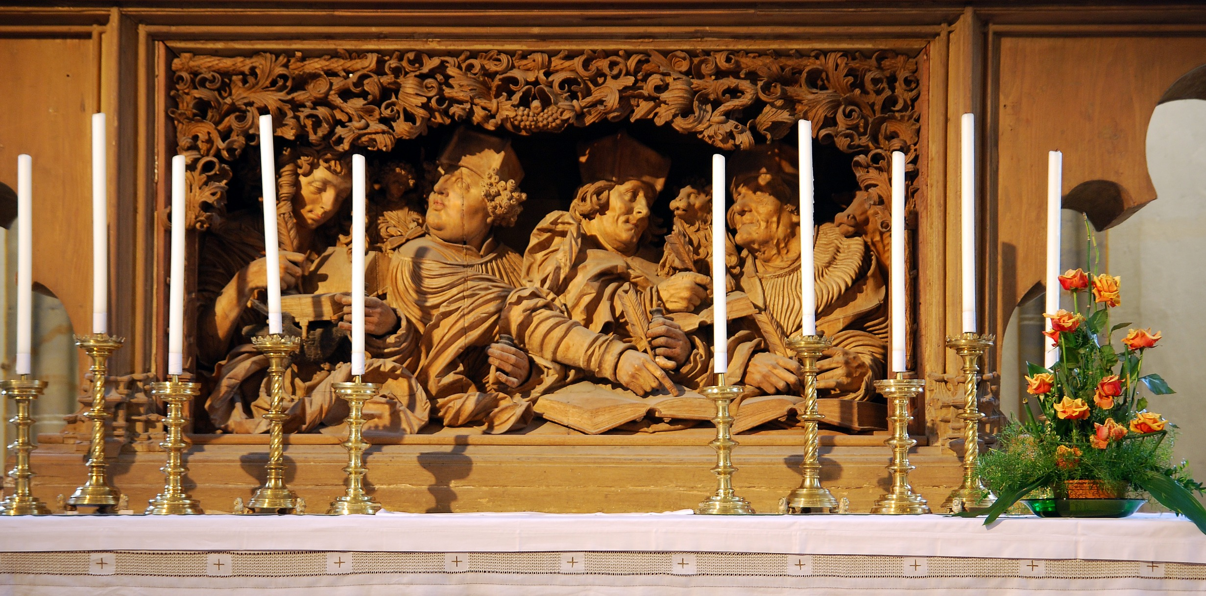 Breisach Minster high altar predella.